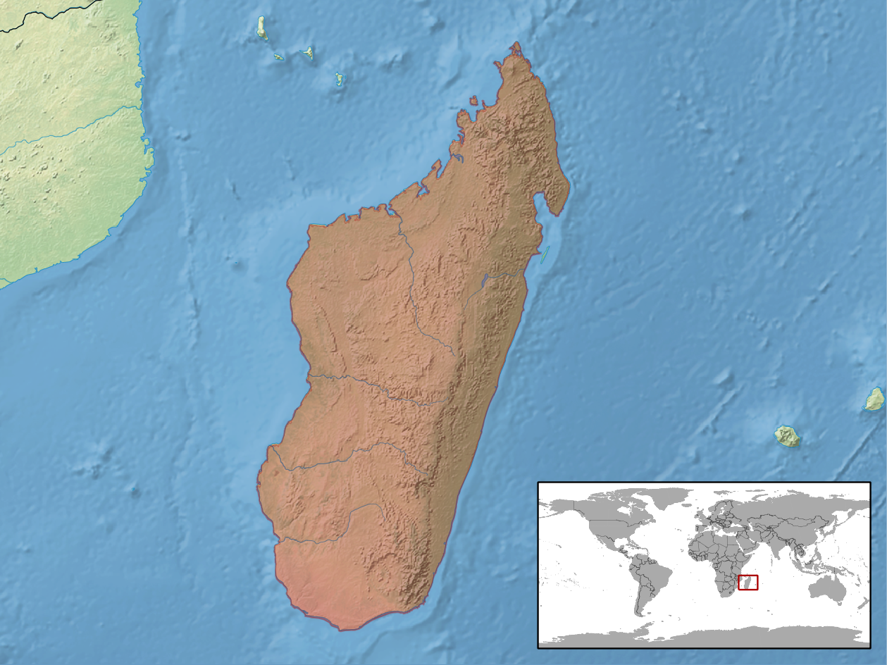 geographic distribution of Furcifer oustaleti (Native: Madagascar)